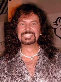 Wally Wingert